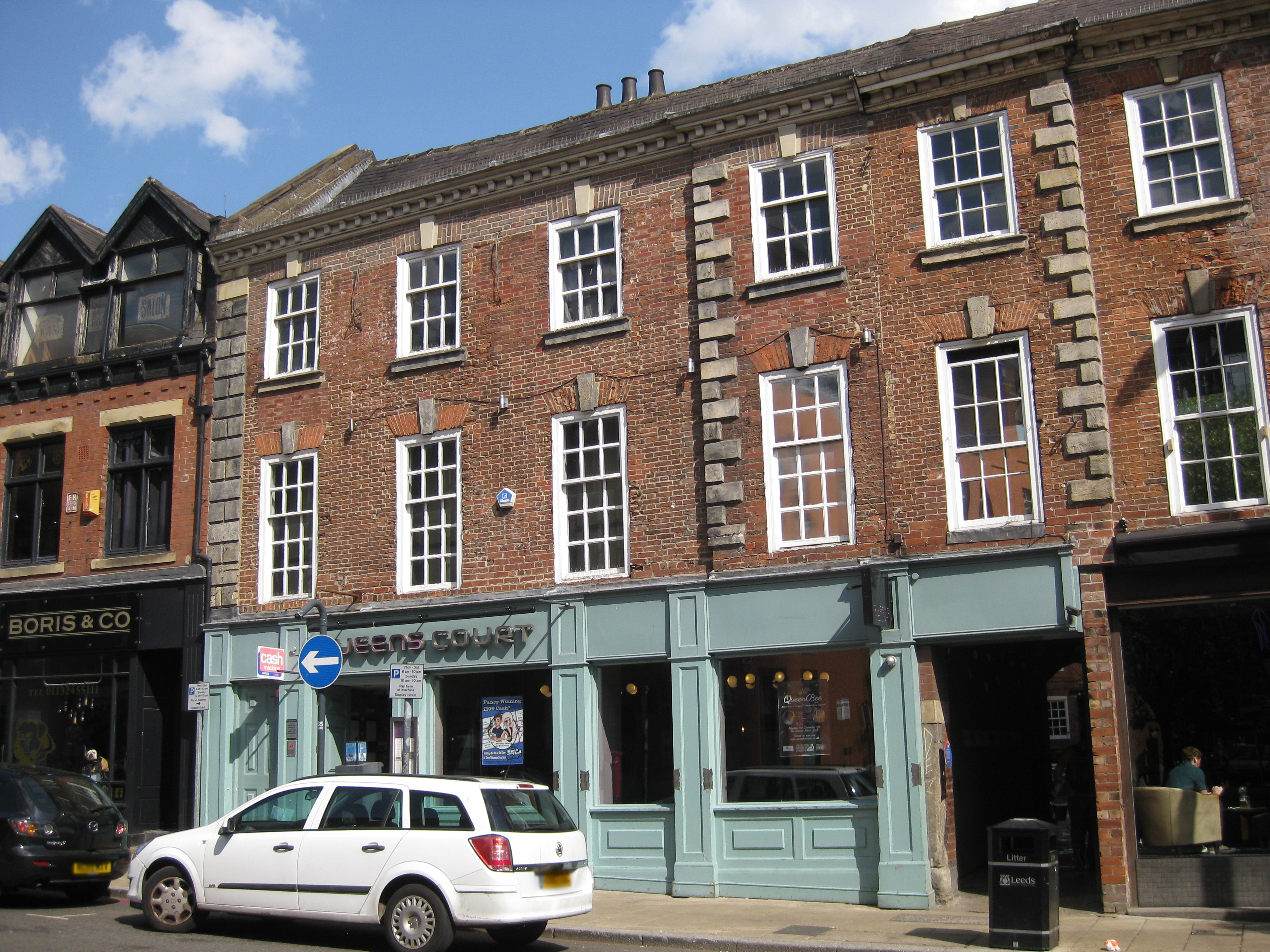 Queens Court, 167-168 Briggate, Leeds LS1 6LY, UK. An early 18th century house and place of business of a cloth merchant. On the right, by the litter bin, and alley leads through to the yard where the warehouse and workshops were located.